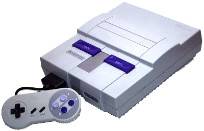 Super Nintendo Entertainment System, North American version.